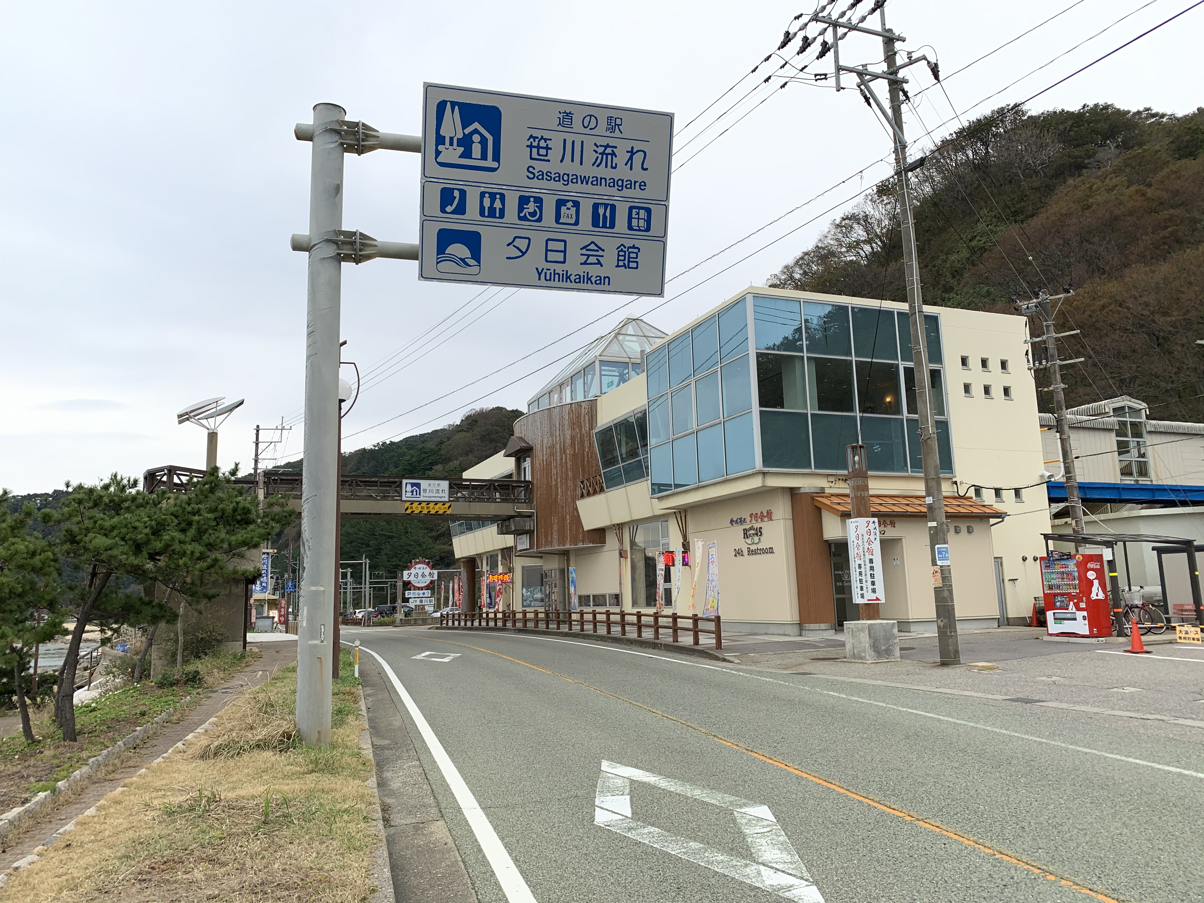 Sasagawa-nagare, Michi no Eki (Roadside Station), Niigata, Japan. Took photo in October 2019.